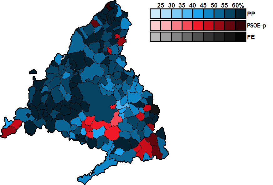 Most-voted party in Madrid municipalities, showing vote share obtained, in the Spanish general election, 2000.